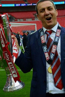 A picture of Andy Pilley when Fleetwood Town FC won promotion at Wembley to Sky Bet League One.